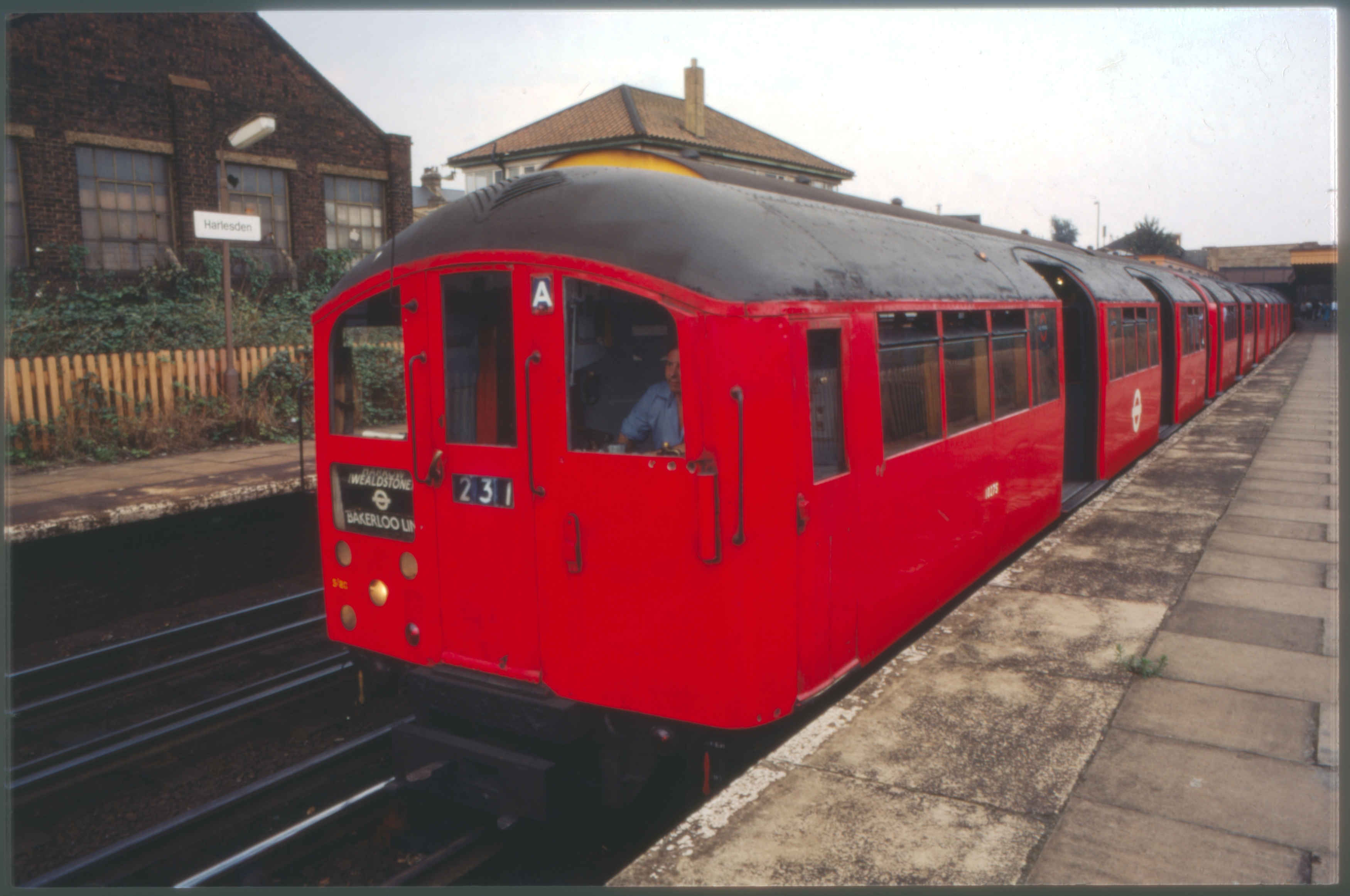 Northbound 1938 stock tube train heading for Harrow and Wealdstone calls at Harlesden station on the section of the Watford DC service where mainline (in 2013 London Overground) and London Underground (Bakerloo Line) trains share the same tracks. Behind can just be seen the top of a southbound British Rail Class 501 train, travelling towards either London Euston or London Broad Street. Photographed by SP Smiler